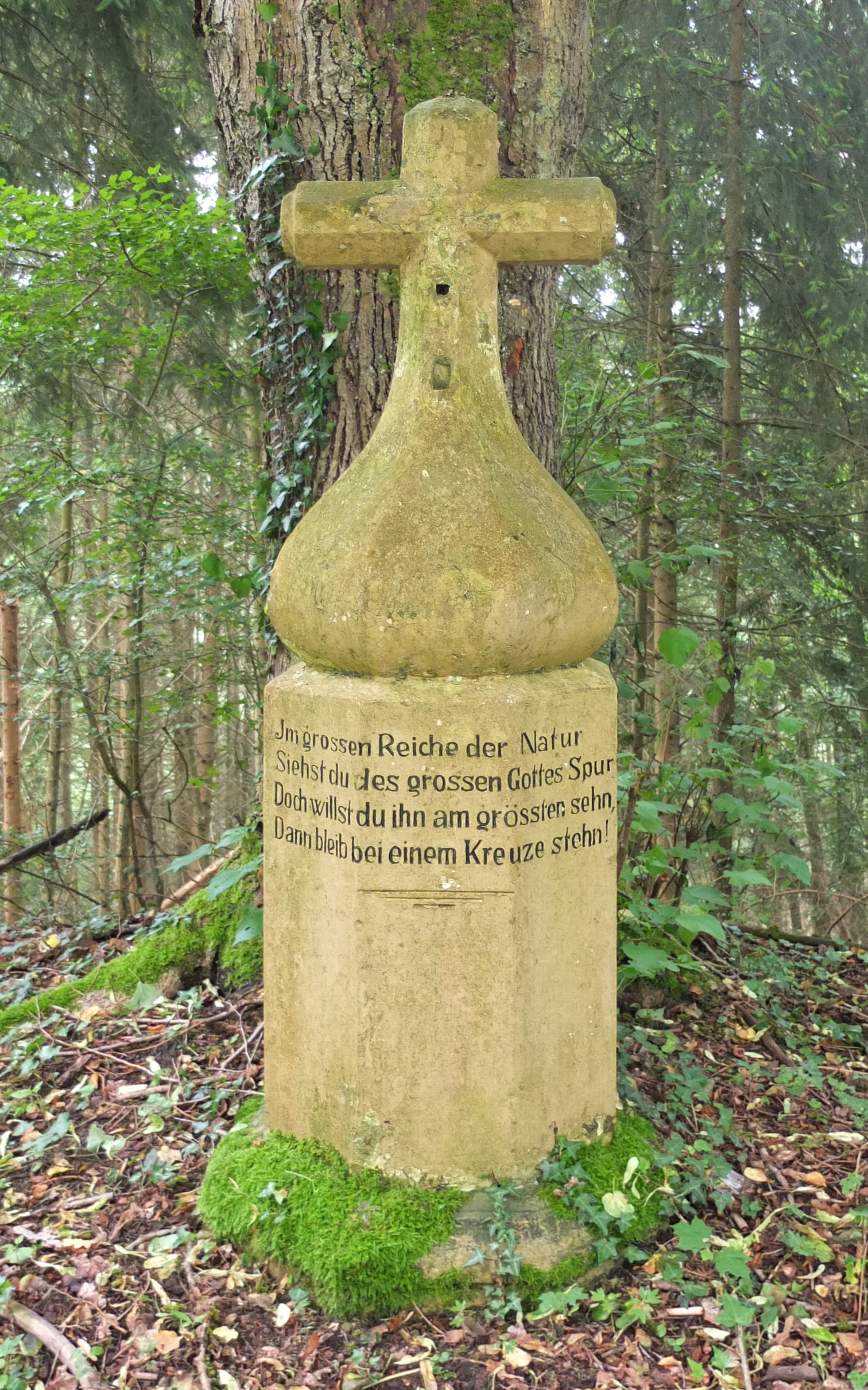 Wayside cross near Bollendorf, Germany.This is a photograph of an architectural monument.It is on the list of cultural monuments of Bollendorf